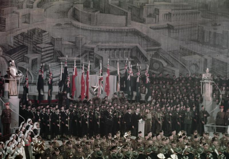 Salute To the Red Army, Royal Albert Hall, London, 21 February 1943 The combined services giving thanks at the Royal Albert Hall.